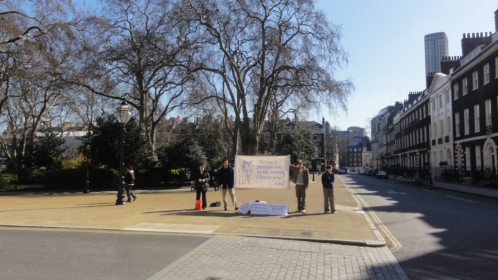 Four people from the '40 Days for Life' campaign protesting outside the Bedford Square offices of the British Pregnancy Advisory Service (BPAS), a provider of abortion services.